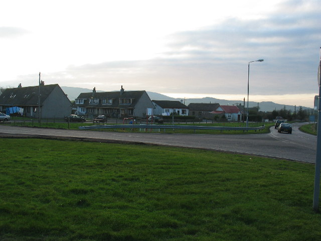 Stewarton Village near to Campbeltown.